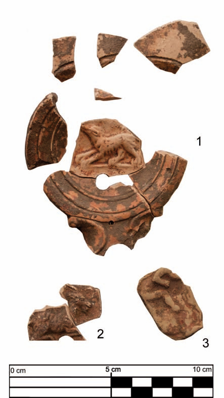 Pottery from the Forum of Municipium Flavium Fulfinum (Krk island, Croatia)